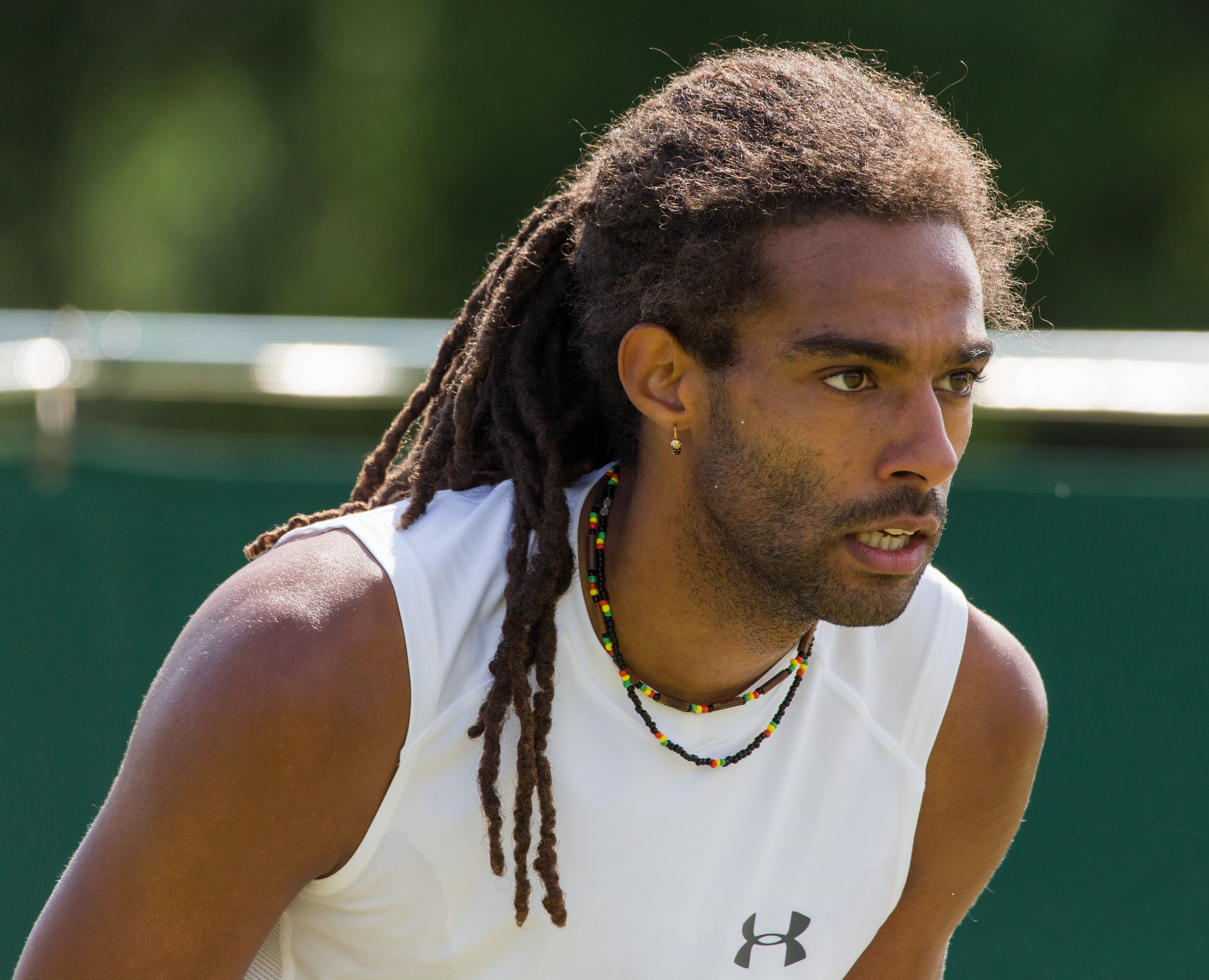 Dustin Brown competing in the second round of the 2015 Wimbledon Qualifying Tournament at the Bank of England Sports Grounds in Roehampton, England. The winners of three rounds of competition qualify for the main draw of Wimbledon the following week.